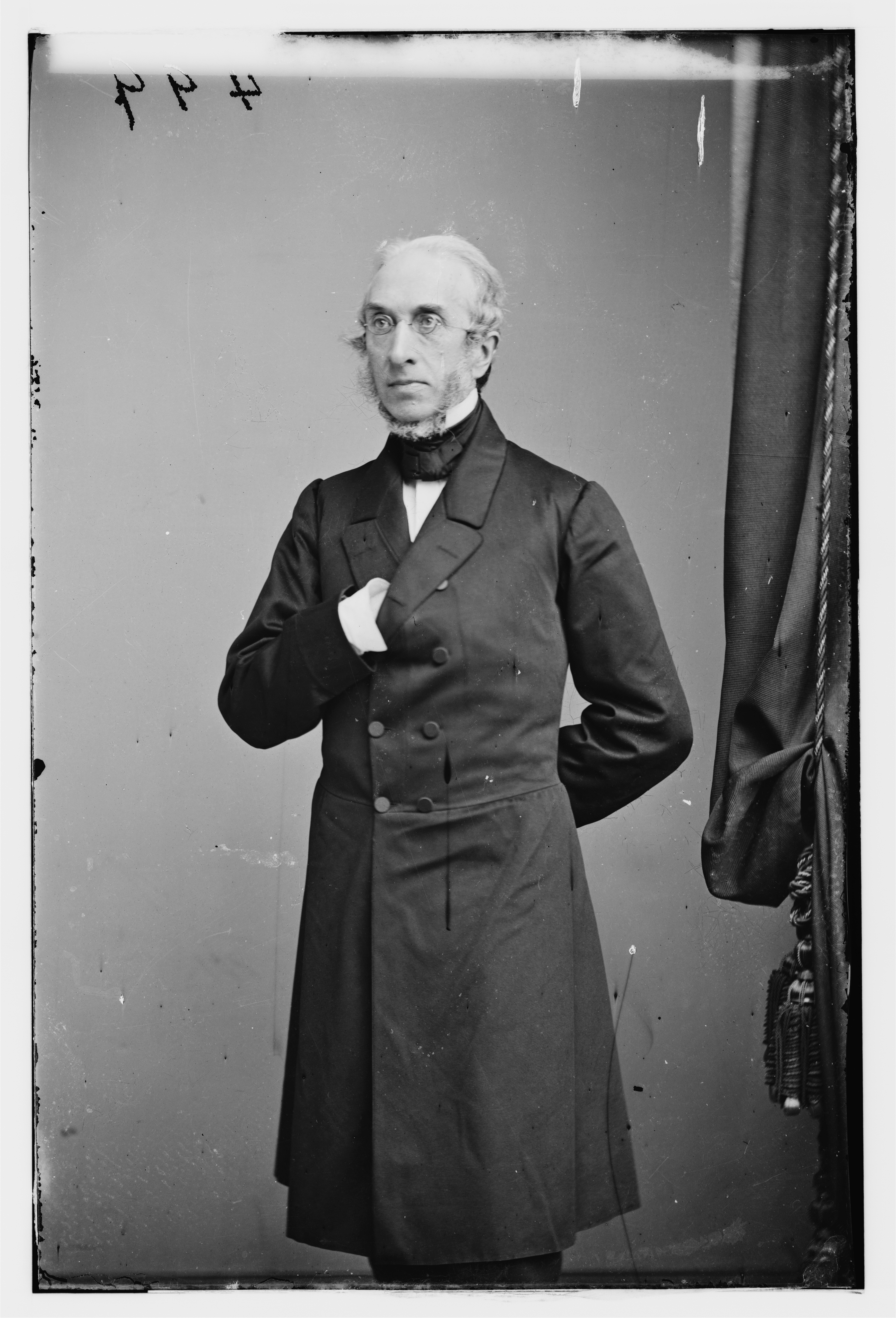 Robert Charles Winthrop. Library of Congress description: "Hon. Robert Charles Winthrop of Mass."